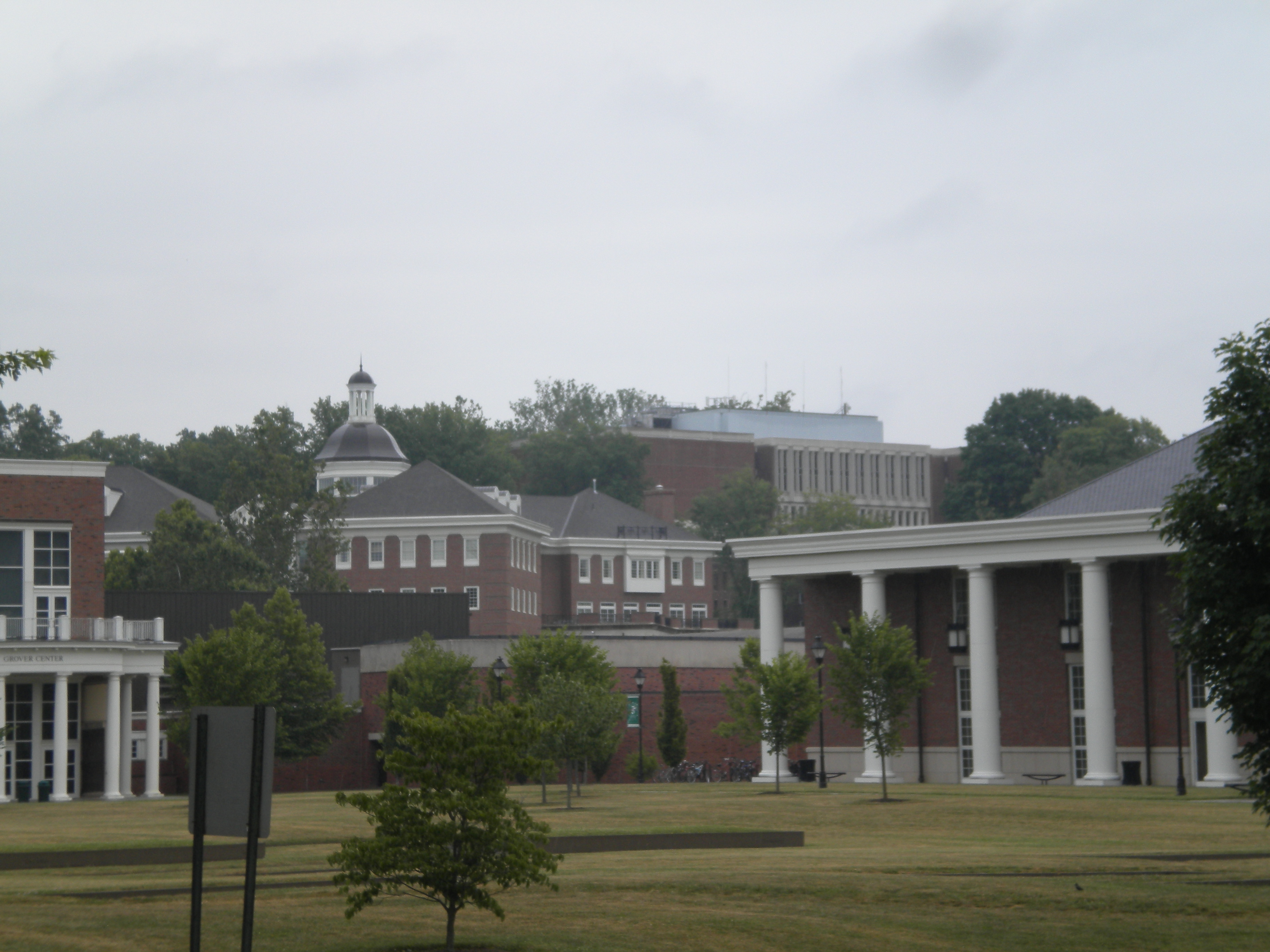 The Academine Hill, Athens, Ohio